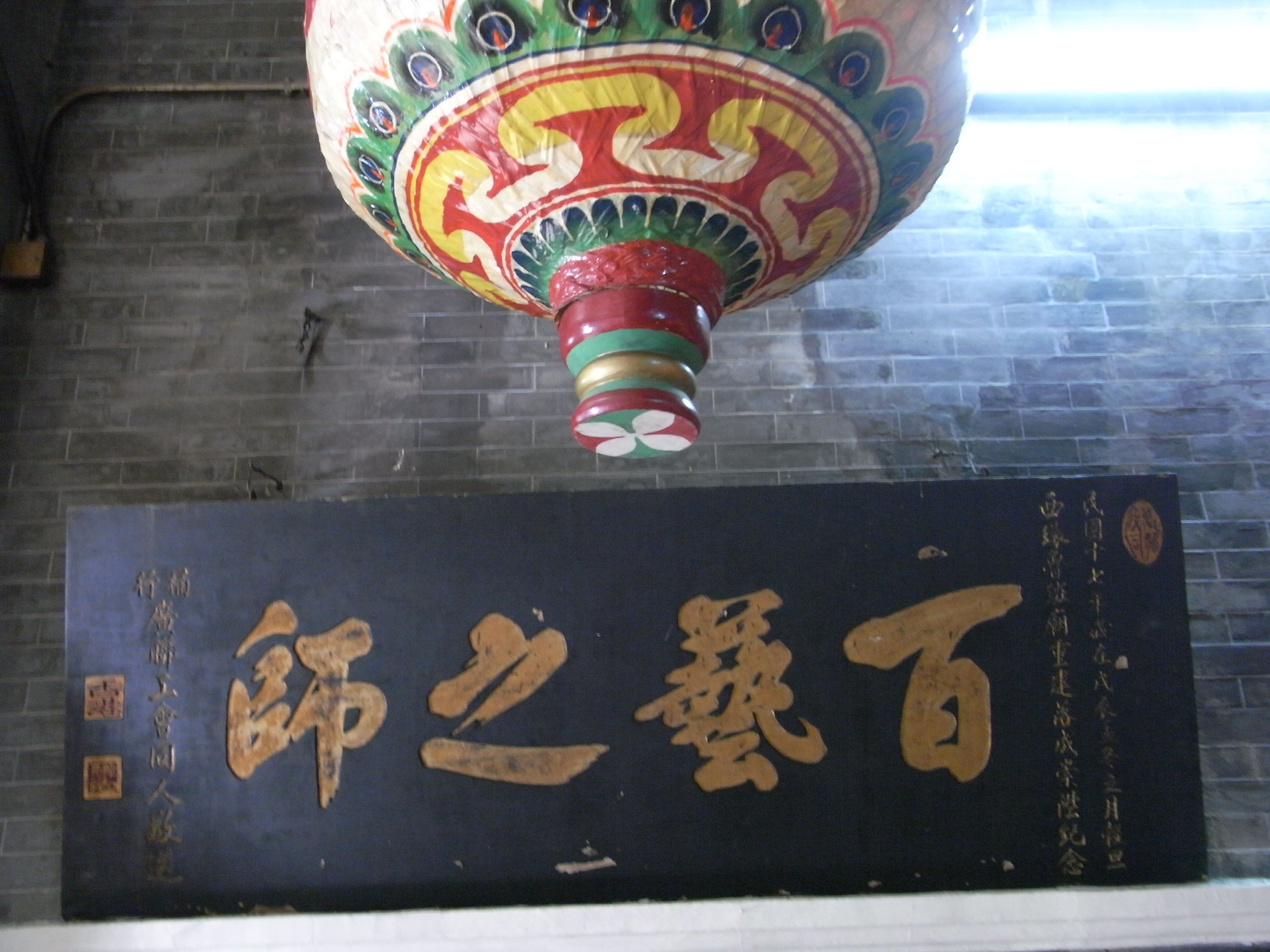 堅尼地城青蓮臺 魯班先師廟